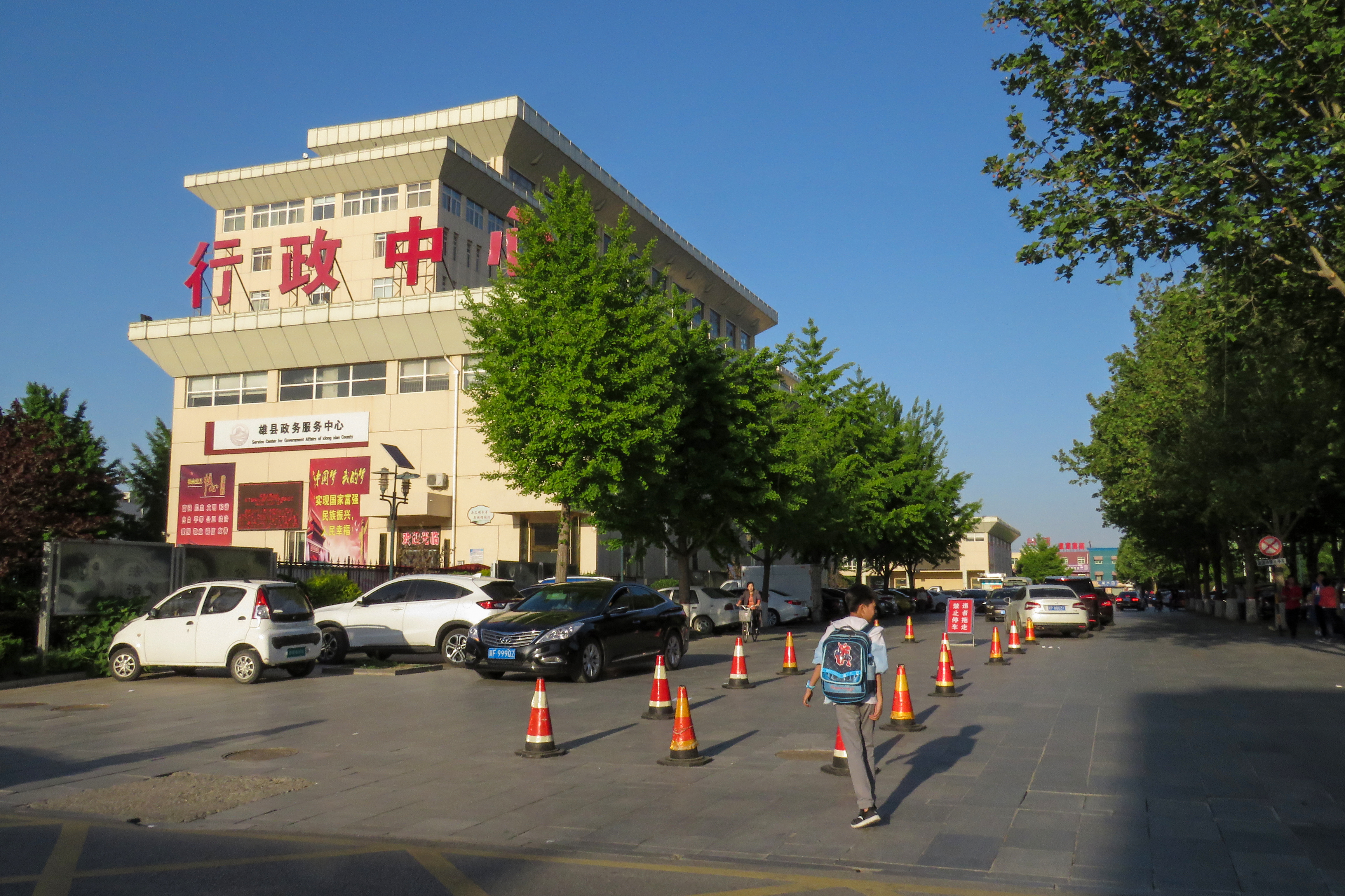 The downtown here is cleaner than downtown Rongcheng, but the startup area is in Rongcheng instead.